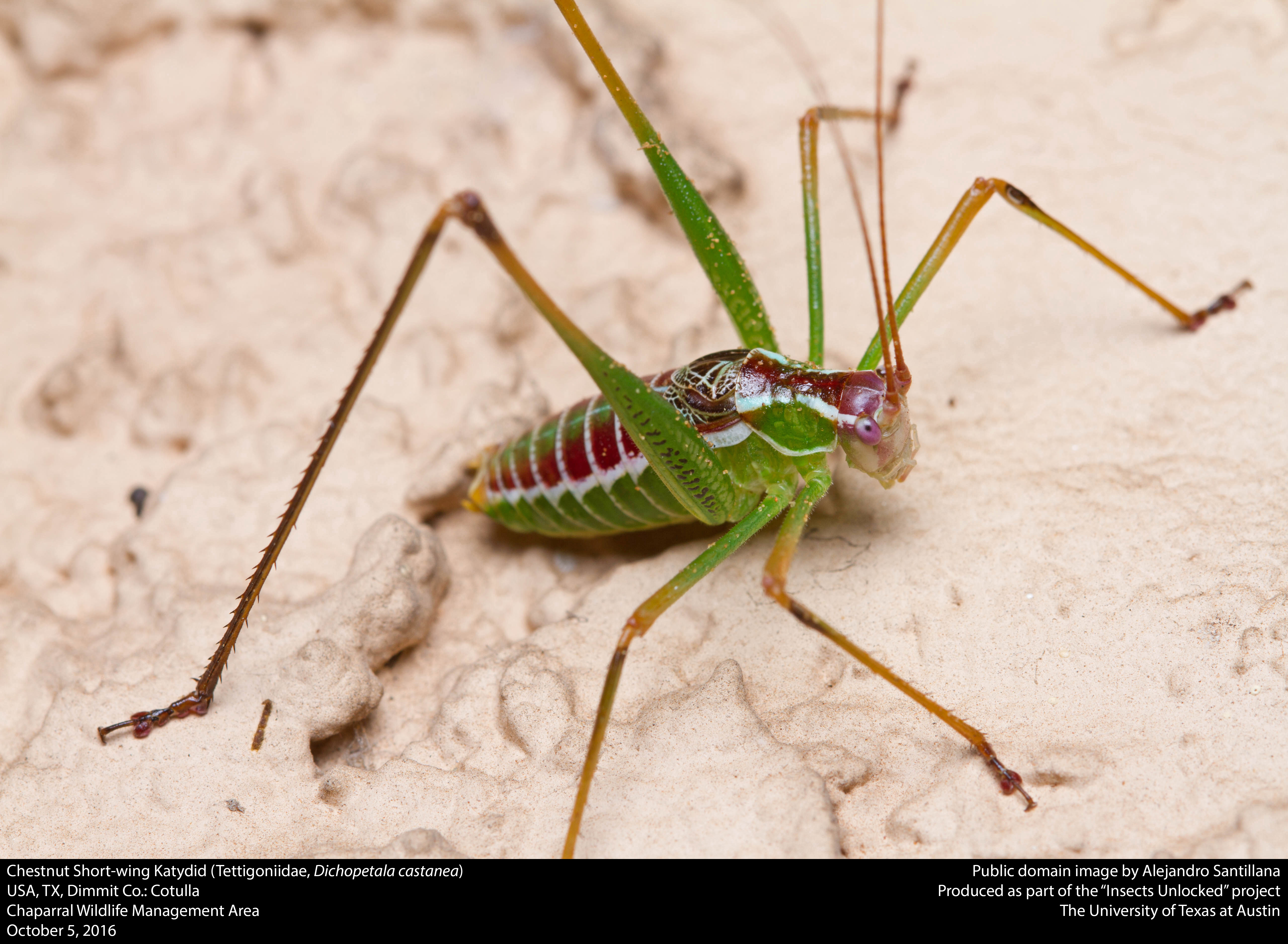 USA, TX, Dimmit Co.: Cotulla Chaparral Wildlife Management Area 5-x-2016